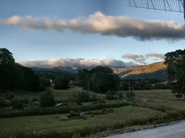 Morning at Anaheilt